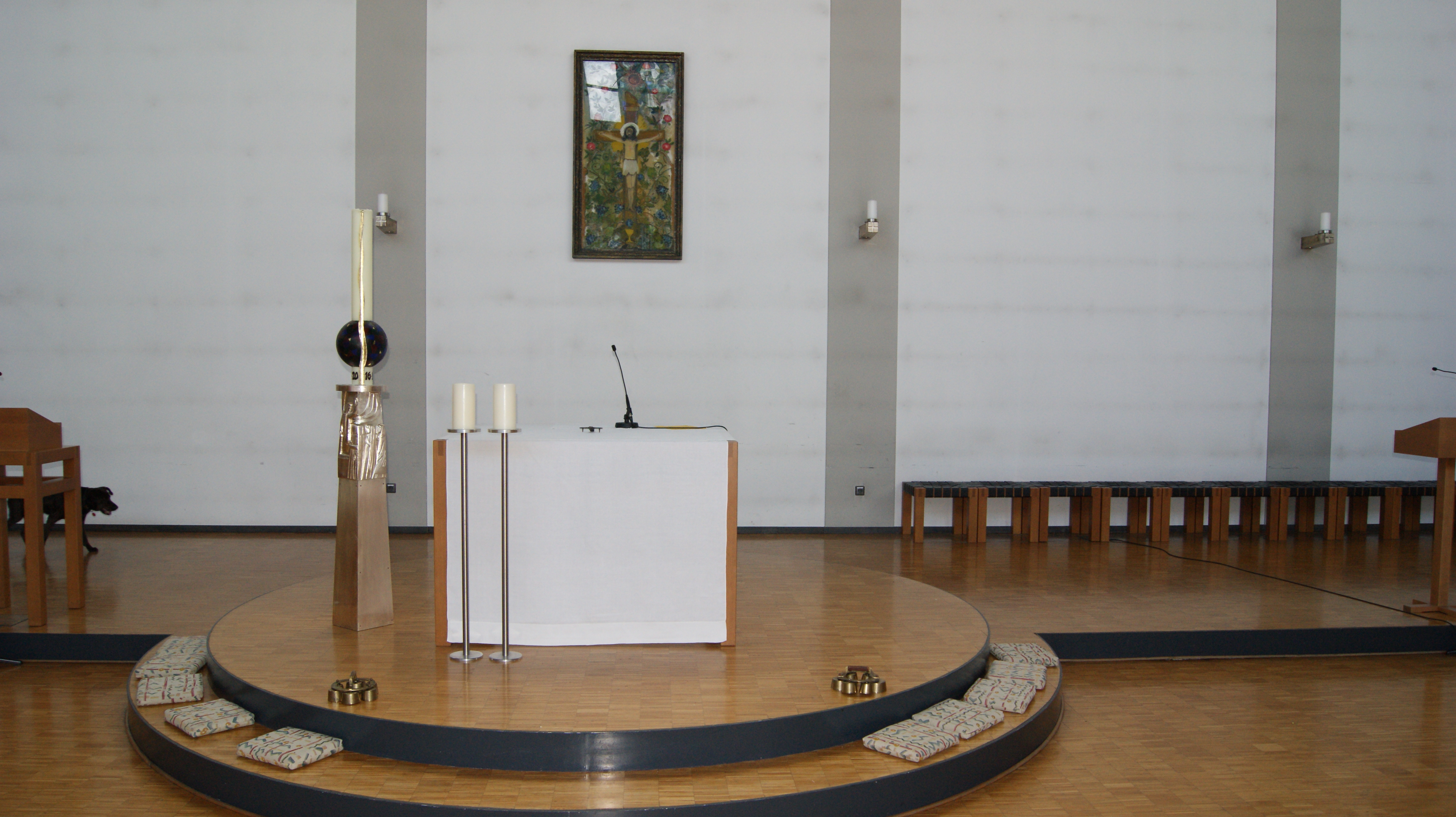 Parish Church St. Nicholas in Altach, Vorarlberg, Austria. New 1956-1960 by the architect Norbert Kopf. Benediction 1962. Altar.